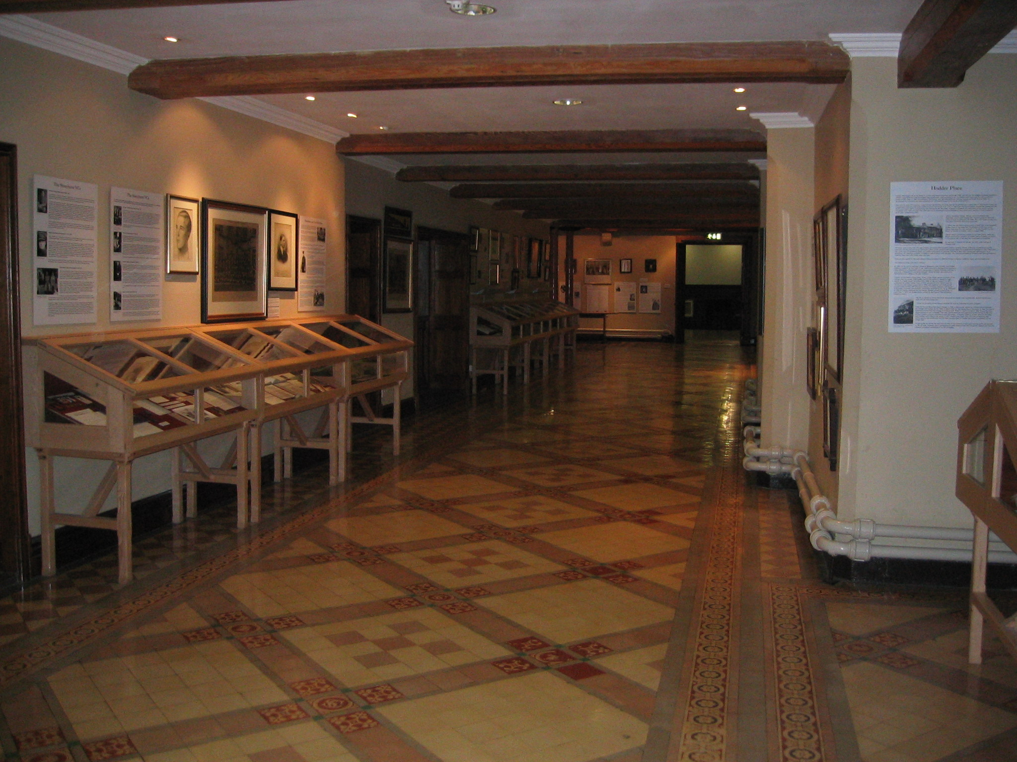 The Do Room, Stonyhurst College